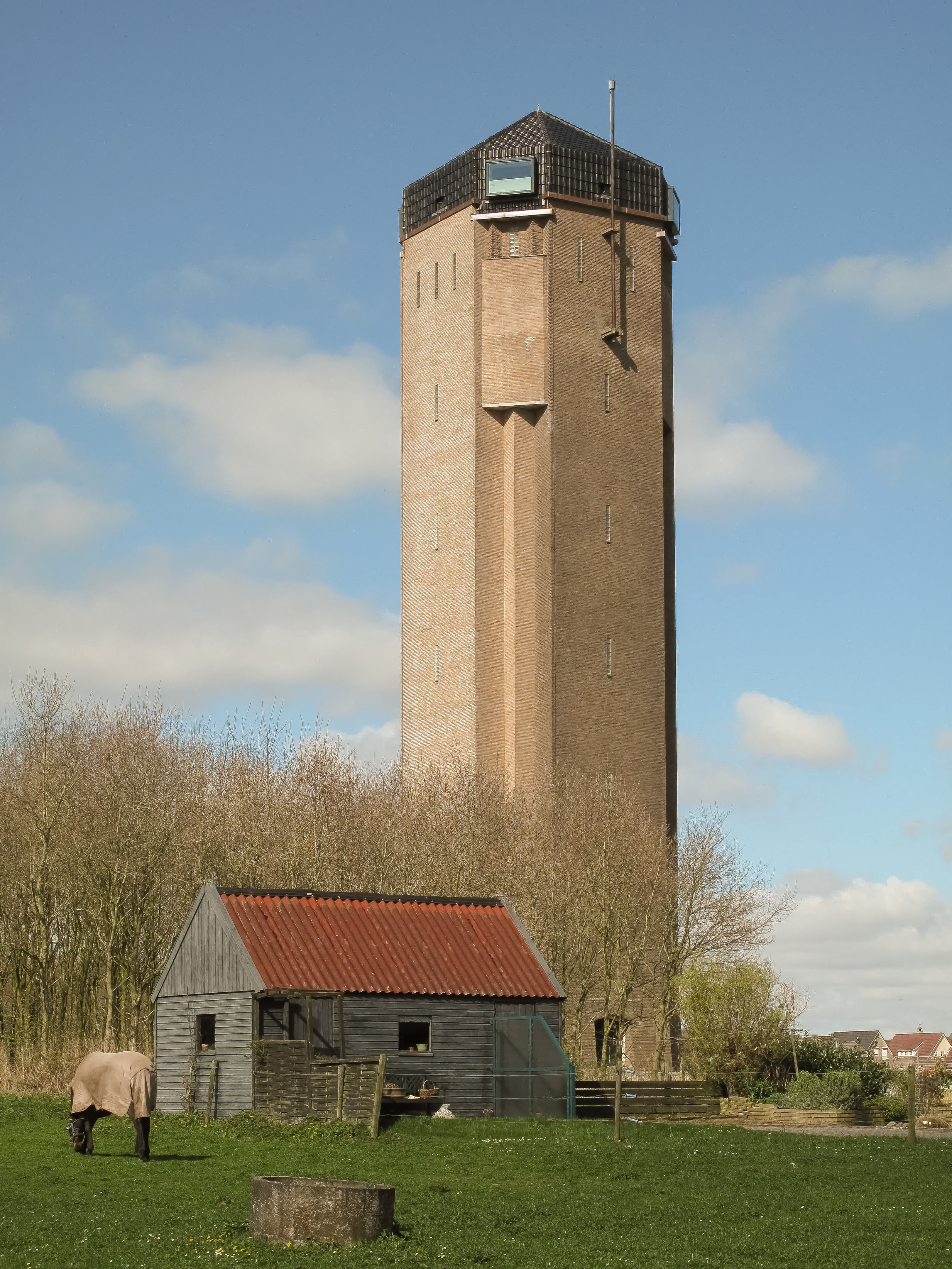 Sint Jansklooster, watertower